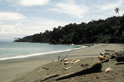 Beach of Gorgona Island, Colombia